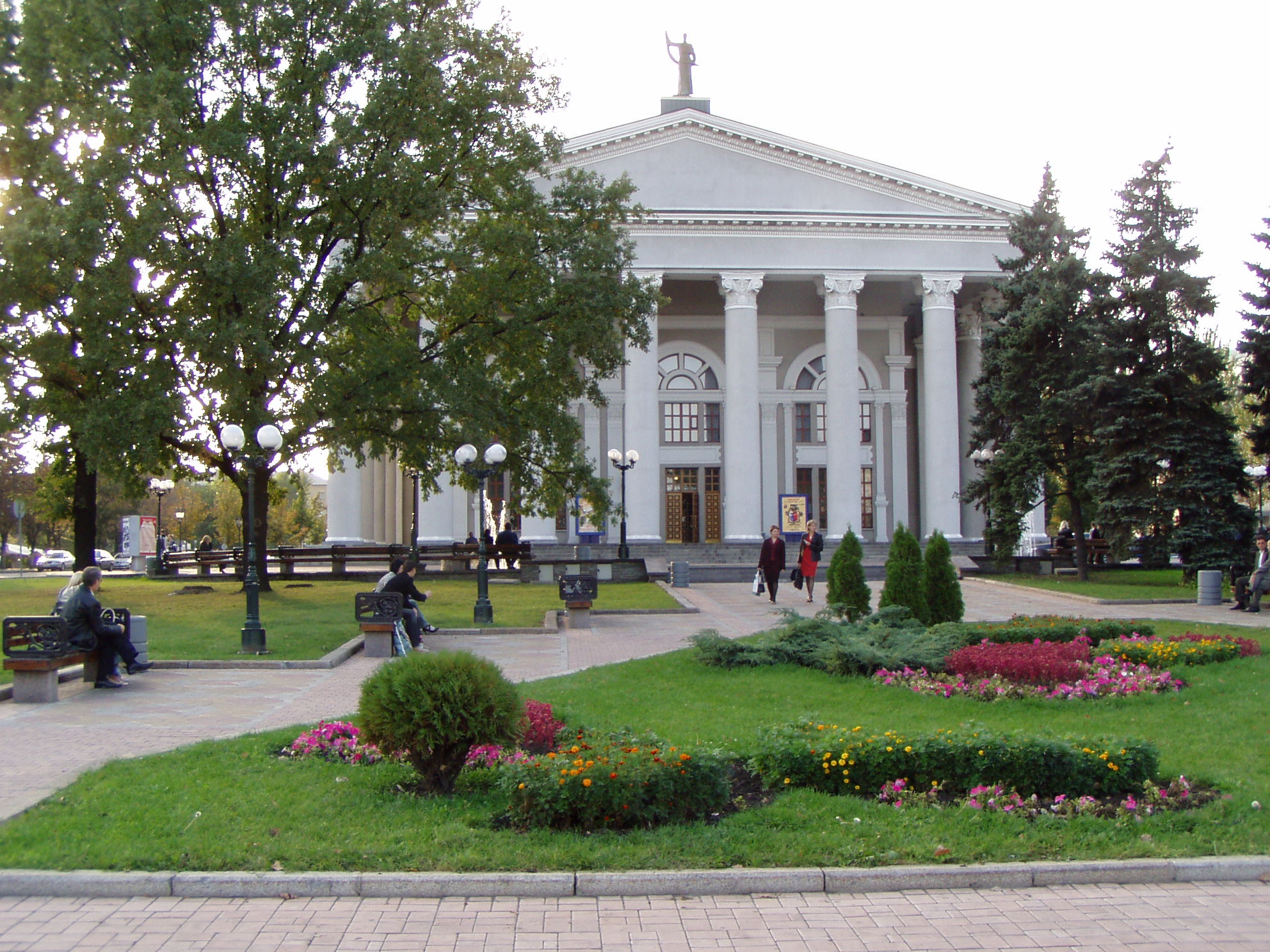 Theatre in Donetsk